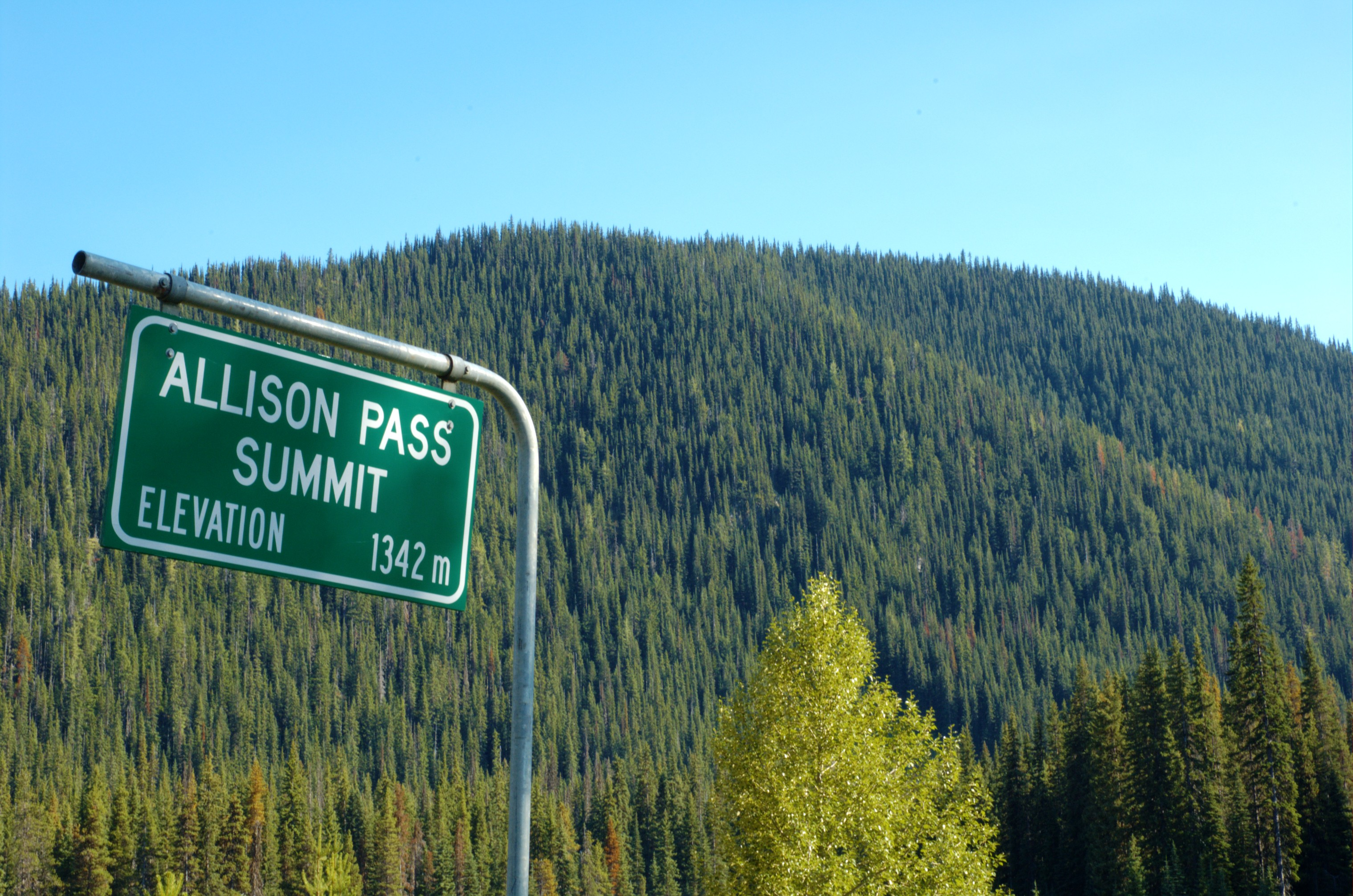 A photo of the summit sign at Allison Pass in Manning Provincial Park, British Columbia, Canada. Can be found on Flickr here